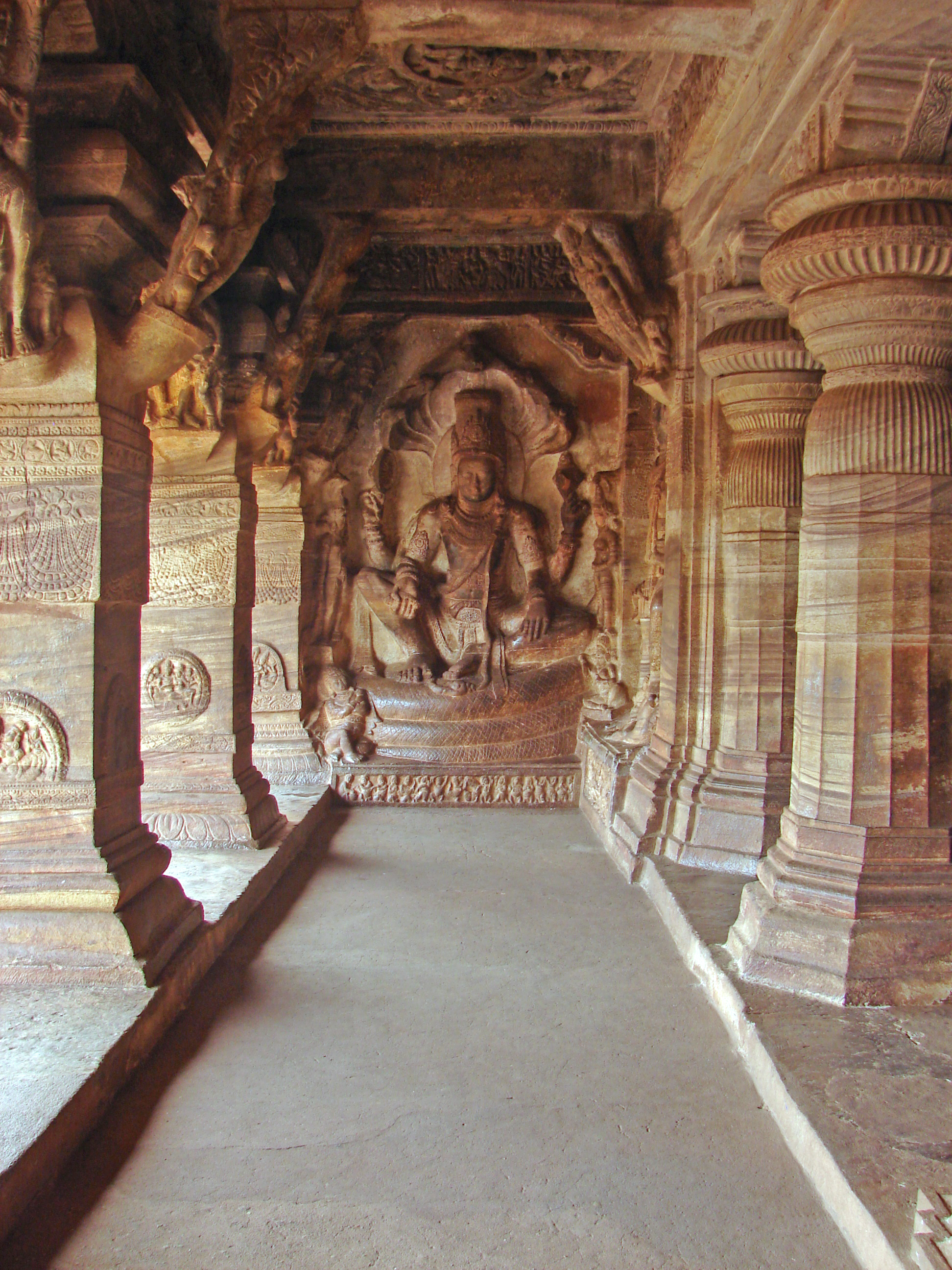 Cave temple no. 3 at Badami, Karnataka, India is a Vaishnava temple and was built by the Badami Chalukyas in 578 CE during the reign of King Kirtivarman I.